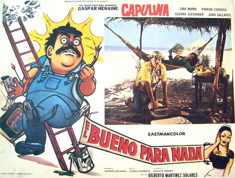 Theatrical release poster for the film El bueno para nada (1973).